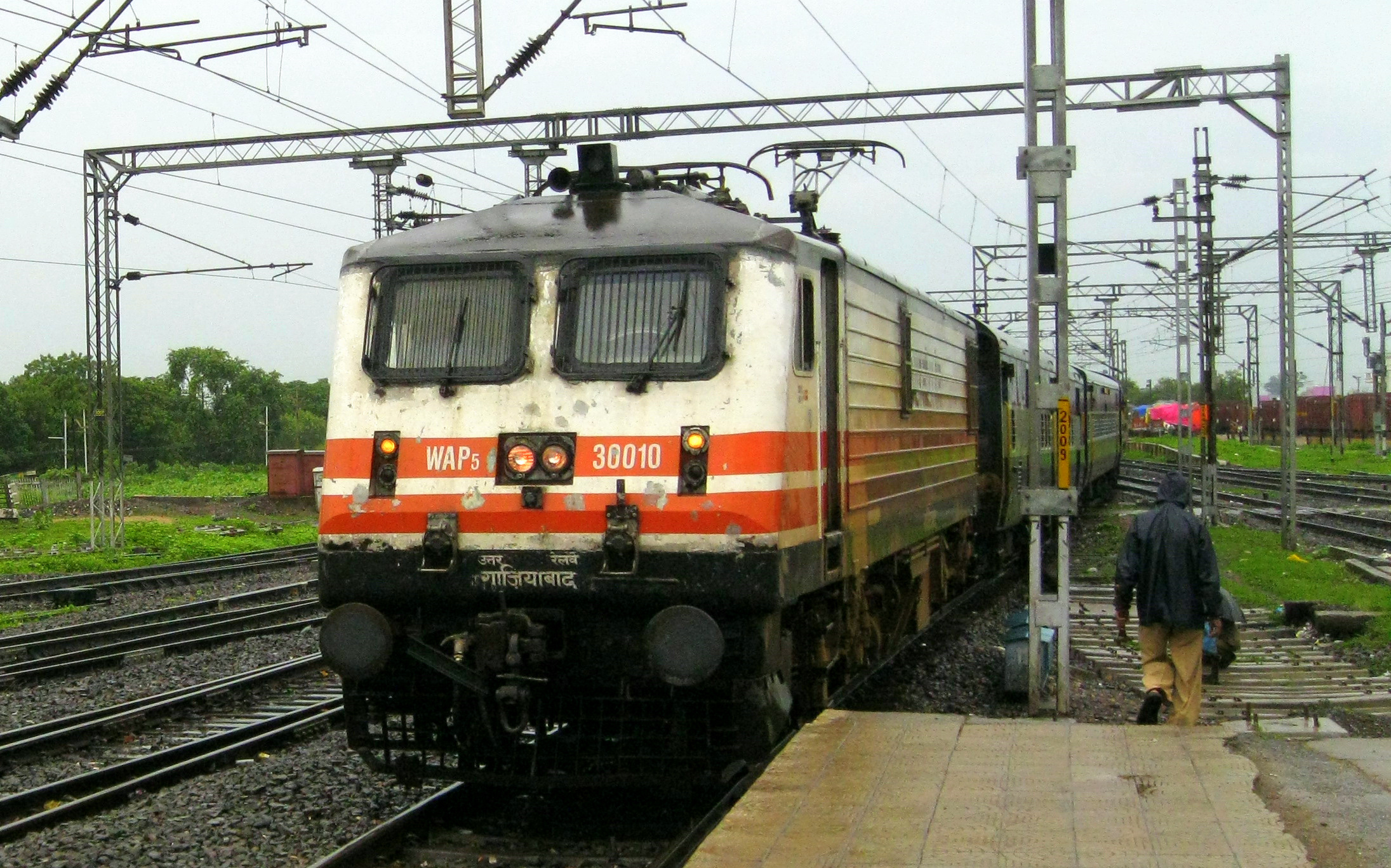 WAP-5 30010 hauling Hazrat Nizamuddin bound train number 12779 Goa Express enters Itarsi